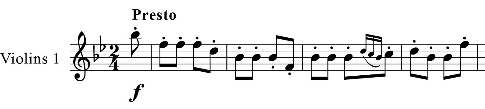 Joseph Haydn, Symphony No. 68, last movement, bar 1-4